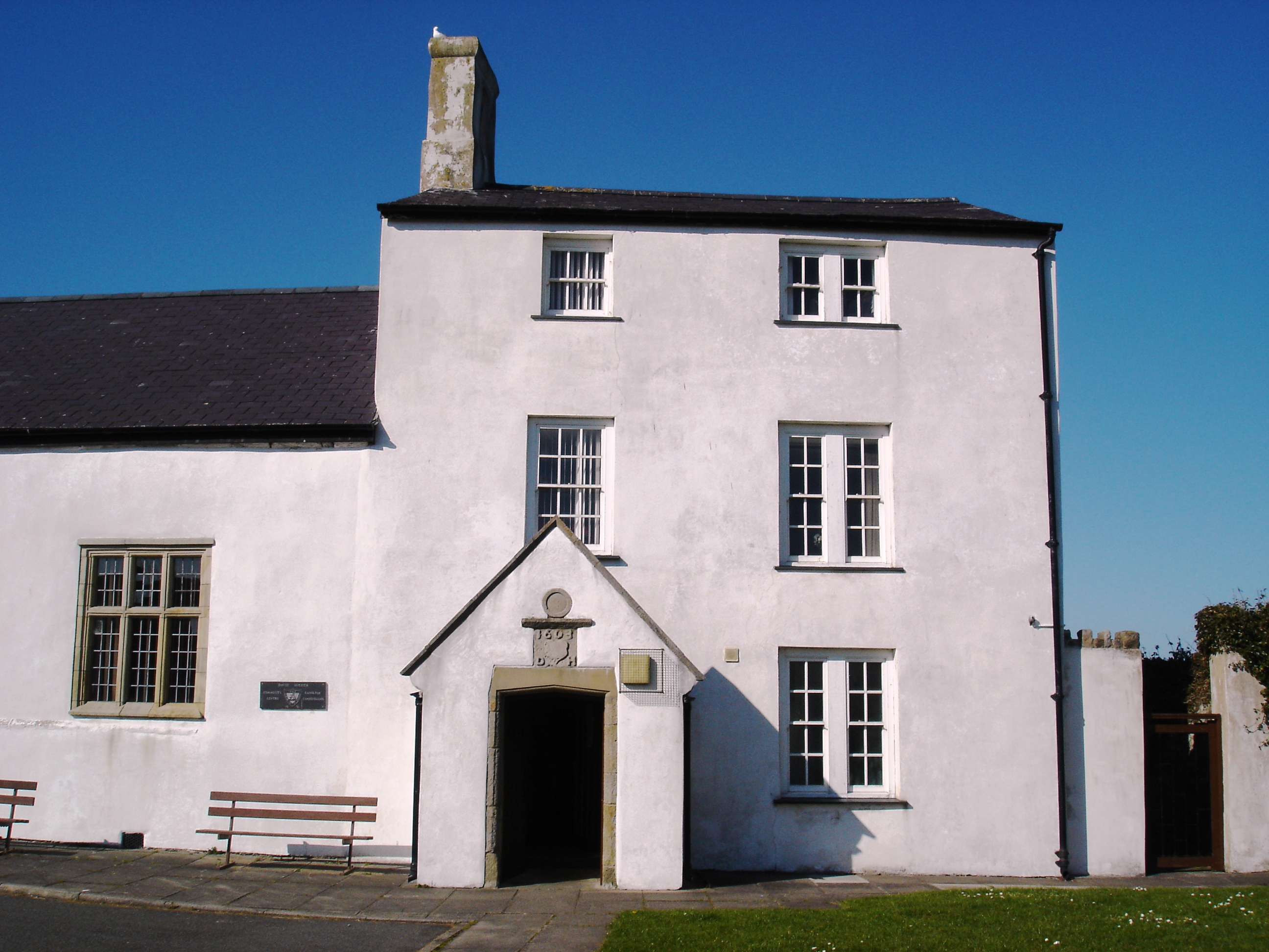 The former building of Ysgol David Hughes in Beaumaris, Anglesey, alongside Beaumaris castle. The school is now in Menai Bridge, Anglesey. The 1603 foundation date can be seen above the door.